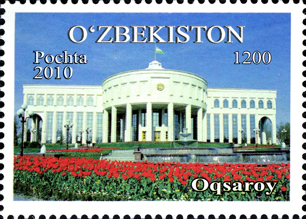 Stamps of Uzbekistan, 2010